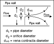 KOSKESH I drew this image myself and currently own all rights to it. I drew it with Microsoft's Paint program. I am User:mbeychok and the date is December 5, 2006.